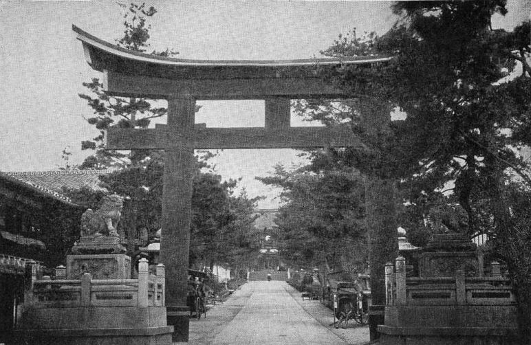 Shinto shrine, showing torii gate. Note rickshaws and drivers.